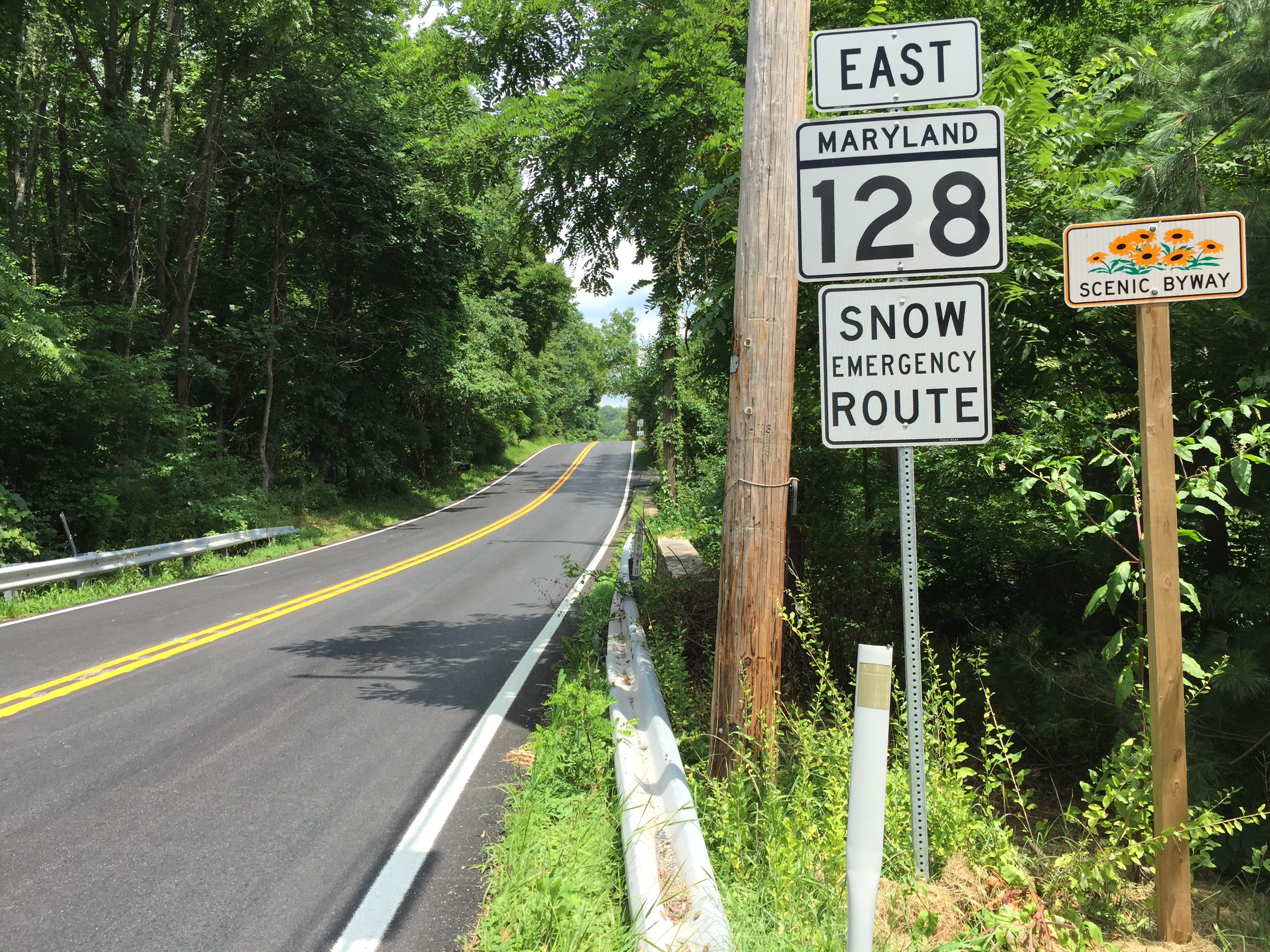 View east along Maryland State Route 128 (Butler Road) just east of Worthington Avenue in Glyndon, Baltimore County, Maryland